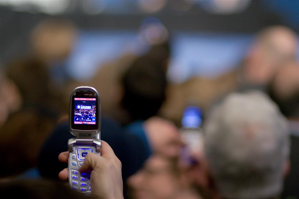 A rally attendee takes a cellphone picture of the stage at a Barack Obama campaign rally on February 2, 2008 at the Target Center in Minneapolis.